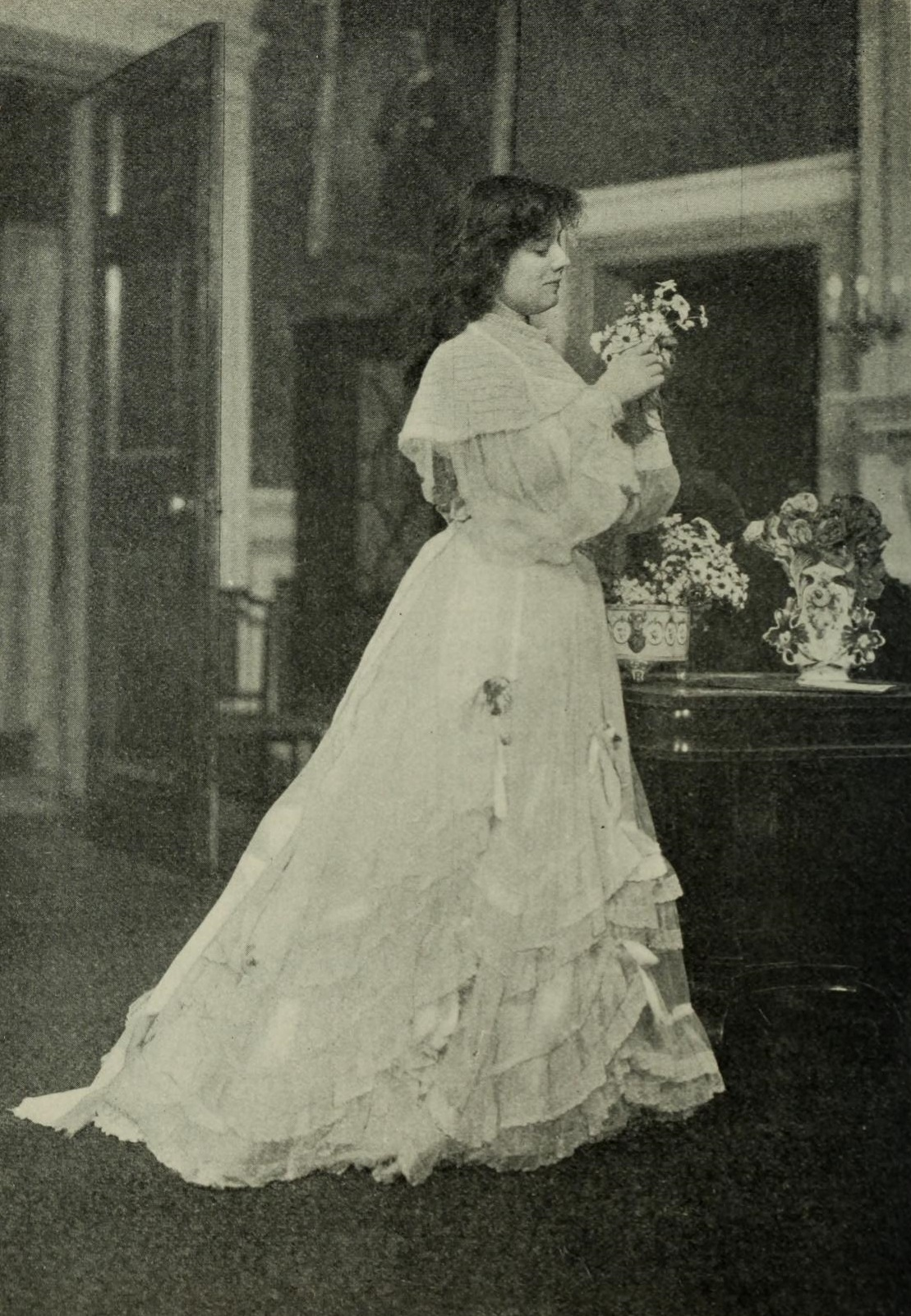 Julia Marlowe in Paul Kester's play The Cavalier (1902)